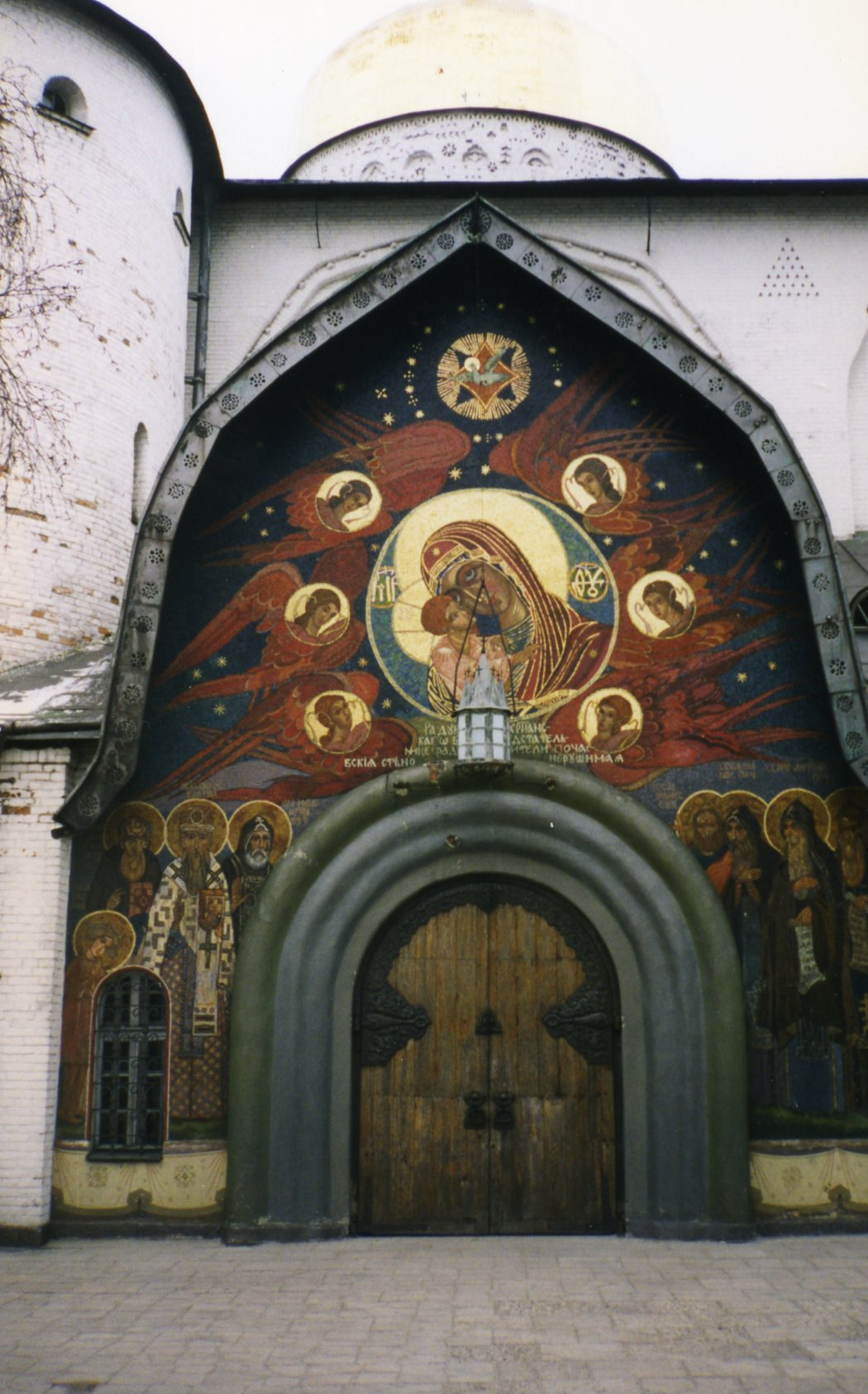 Pochayiv Lavra Monastery, Ternopil Oblast, Ukraine